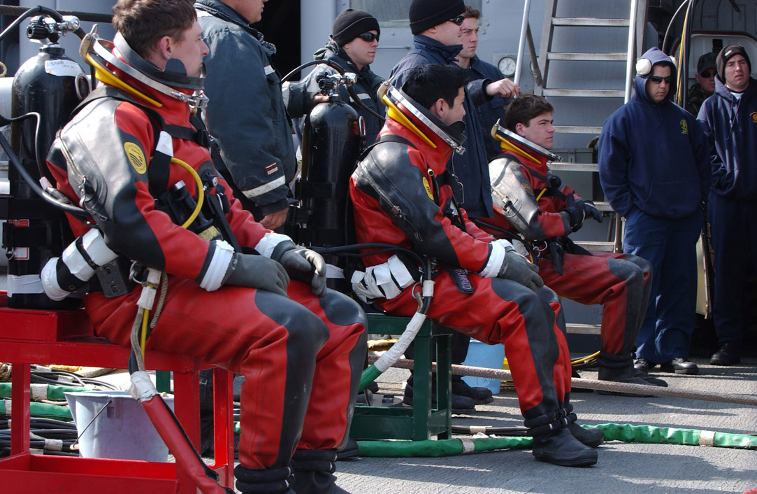 Yellow Sea (March 29, 2006) - U.S. Navy divers assigned to the rescue and salvage ship USS Safeguard (ARS 50) prepare to dive near the wreckage of a U.S. Air Force F-16C lost at sea on March 14th. Safeguard crews and the Republic of Korea Navy ship ROKS Pyong Taek (ATS 27) took on the real-world salvage effort off the coast of Kunsan Air Base as part of salvage exercise (SALVEX 06). U.S. Air Force photo by Senior Airman Joshua L. DeMotts (RELEASED)